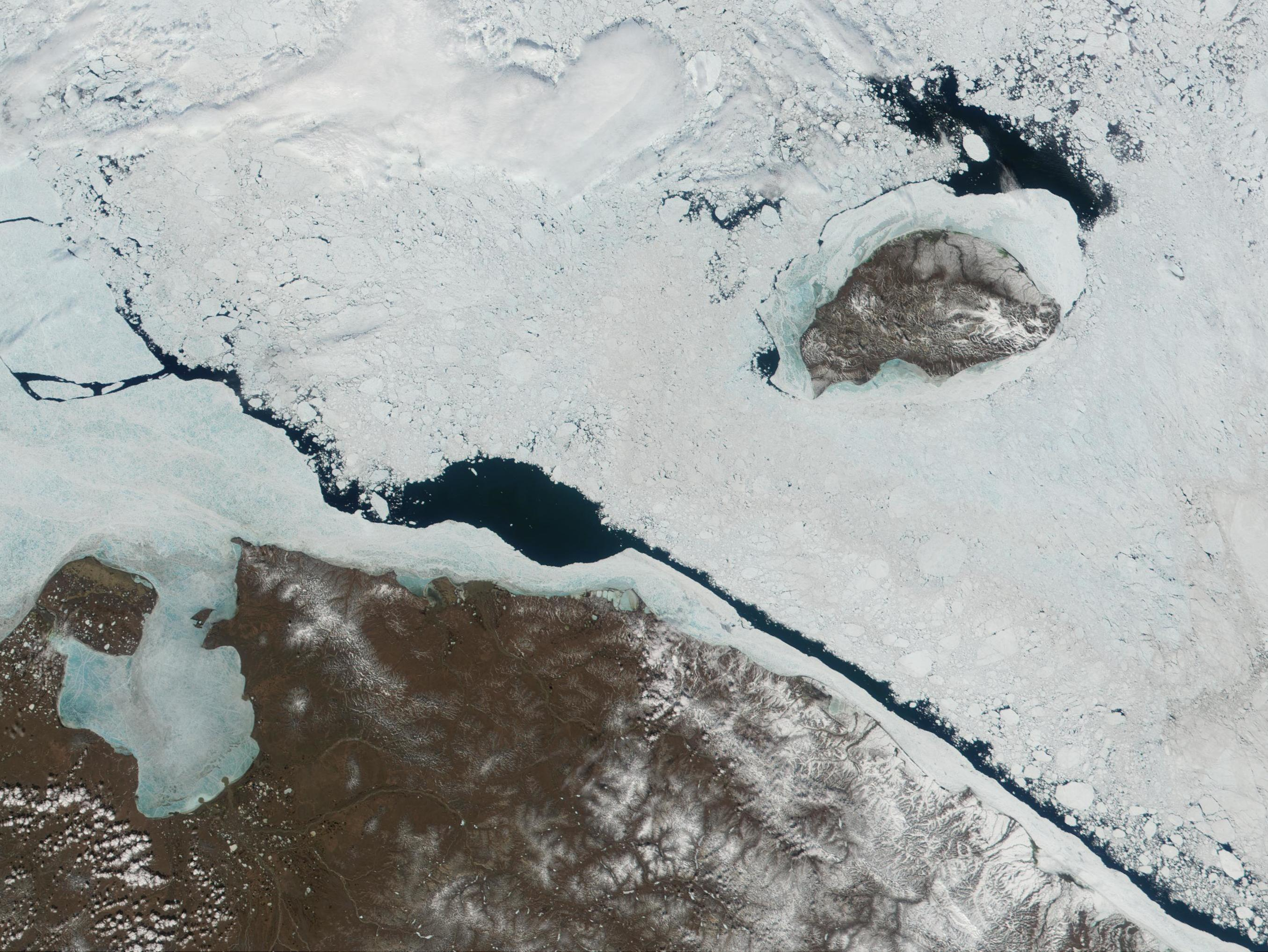 True colour photograph of Wrangel Island taken by MODIS on June 5, 2001.